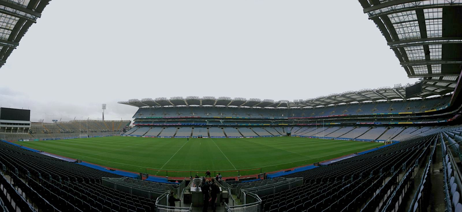 Panoramic picture of Croke Park's GAA stadium in Dublin, Ireland.